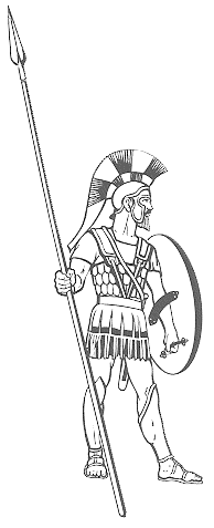 Depiction of a hoplite: this graphic was first published in May, Elmer; Stadler, Gerald; Votaw, John; Griess, Thomas (series ed) (1984) "Classical Warfare: The Age of the Greek Hoplite" in Ancient and Medieval Warfare: The History of the Strategies, Tactics, and Leadership of Classical Warfare, New Jersey, United States: Avery Publishing Group, pp. p. 3 ISBN: 0-89529-262-9.